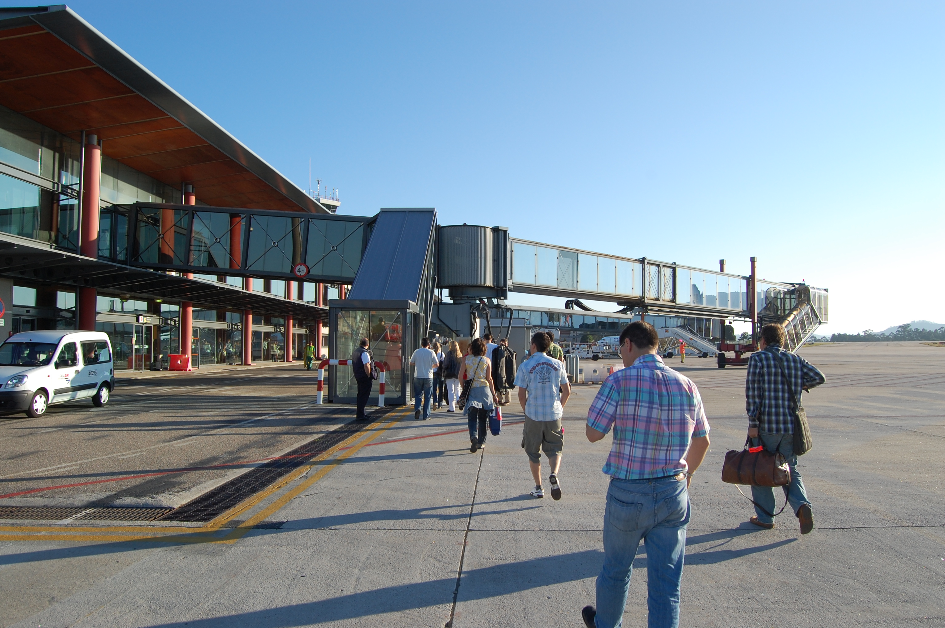 Vigo Airport, Galiza, Spain.